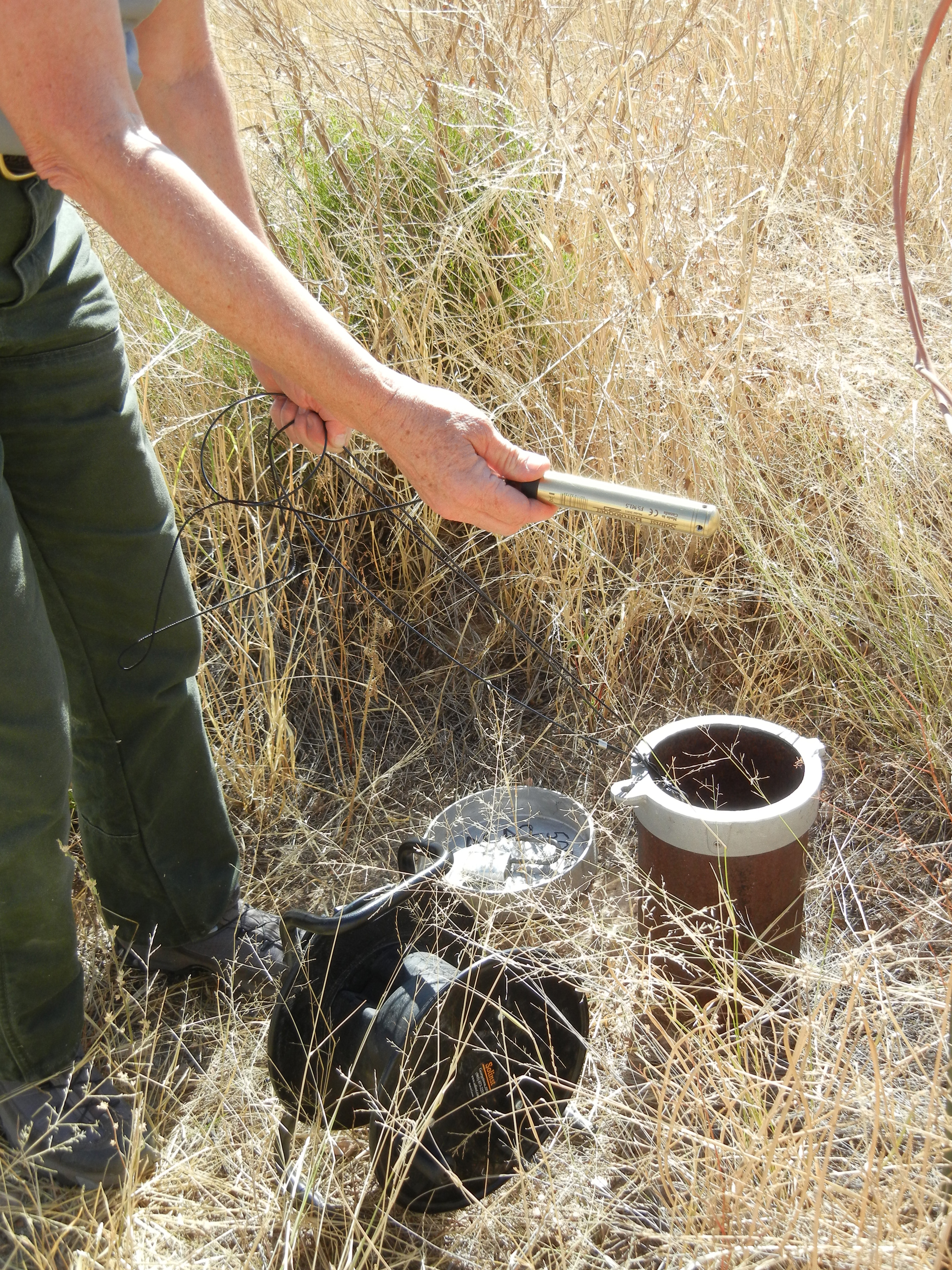 Electronic "Barologger" datalogger used for groundwater monitoring, Coronado National Memorial, Arizona.